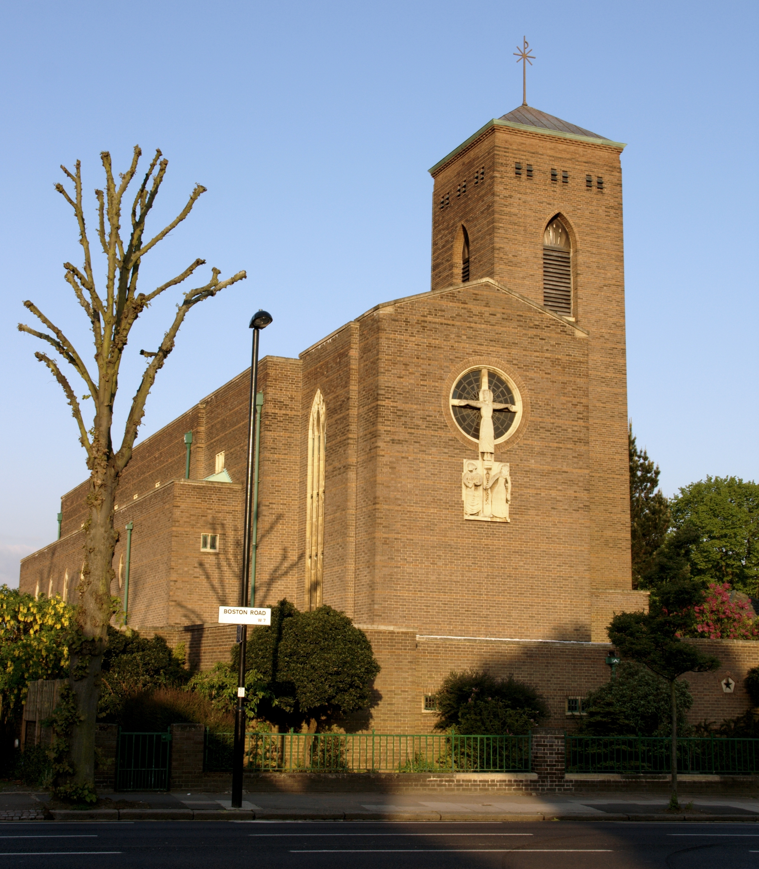 The east face of St. Thomas the Apostle parish church, Boston Road, Hanwell, London W7 2AD. Built in 1933-34 by Sir Edward Brantwood Maufe.